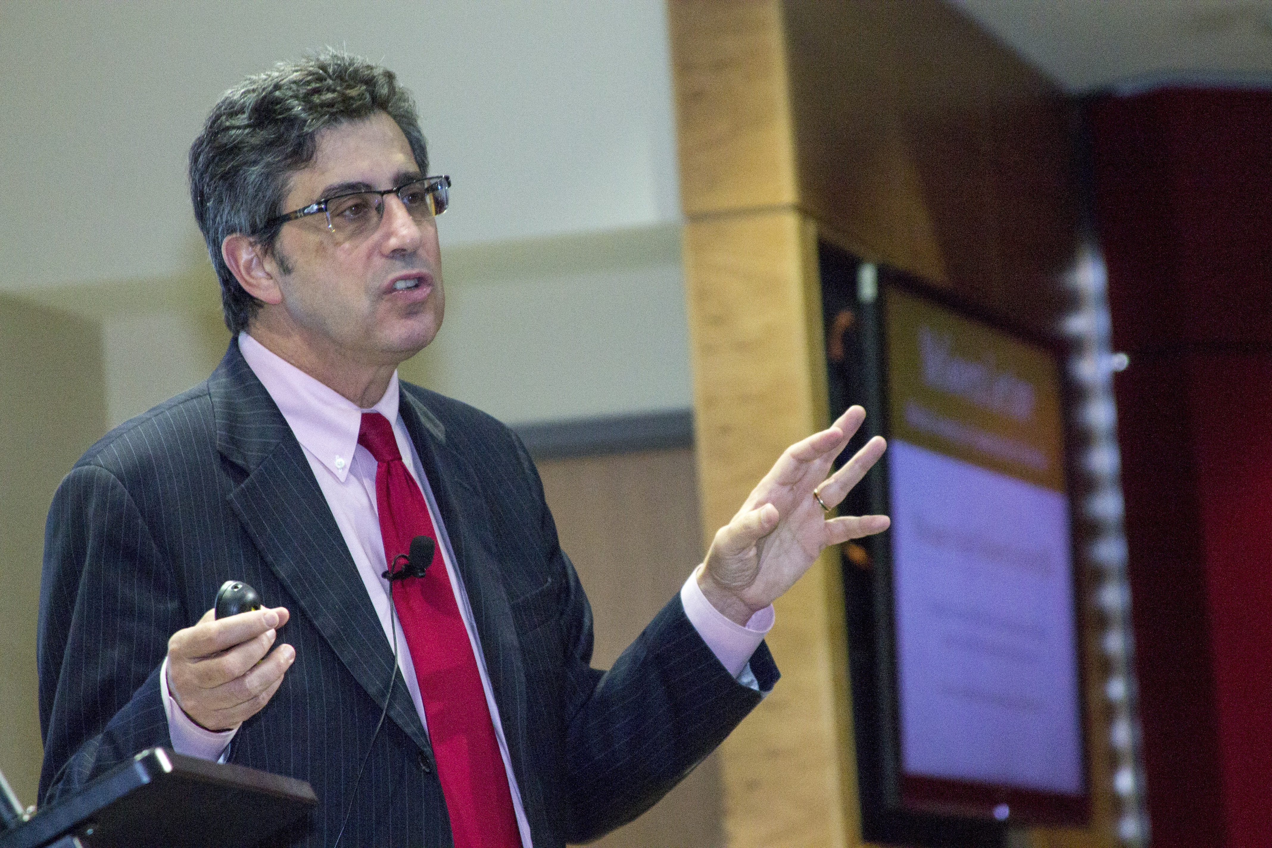 Howard Bauchner deliveres McGovern Lecture 2015, Moody College of Communication Center for Health Communication, Wednesday, March 25, 2015 from 4 – 5 p.m. at the Belo Center for New Media